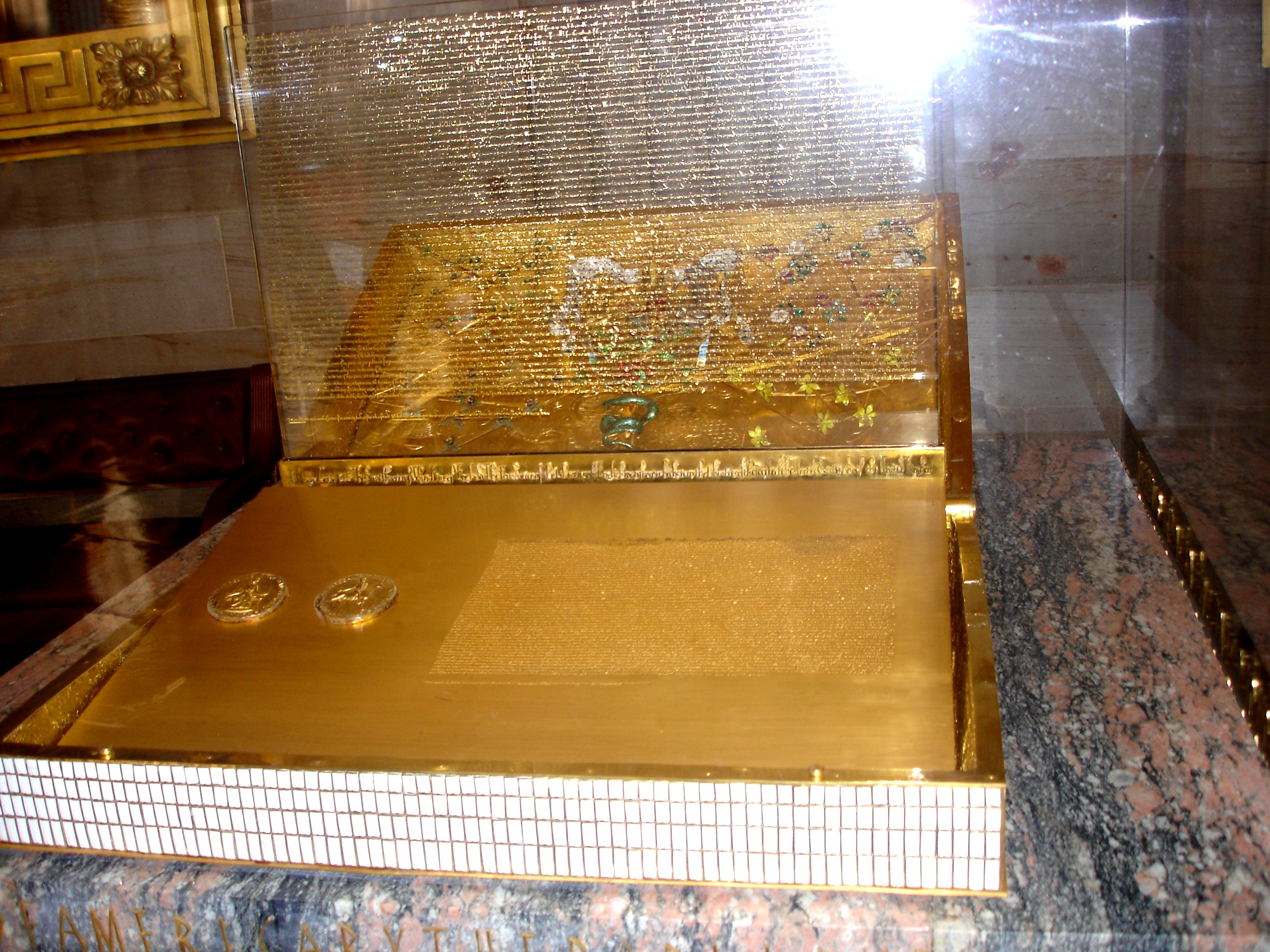 The Magna Carta replica and display which was previously in the rotunda of the United States Capitol in Washington, D.C., USA. In August 2010 the display was relocated to the crypt: see [1].